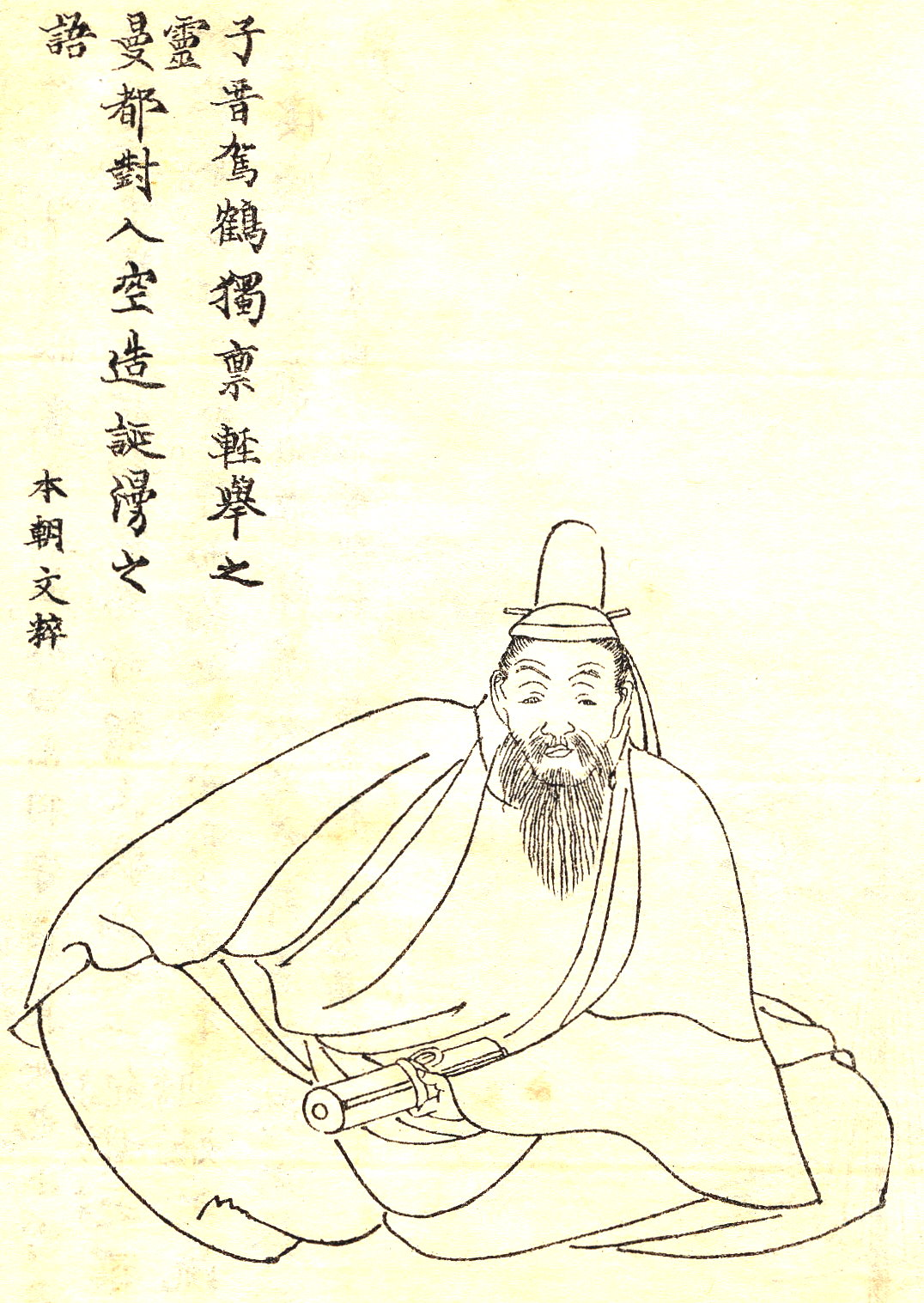 Haruzumi no Yoshitada(春澄善縄) was a Japanese court noble and Scholar in the Heian era.